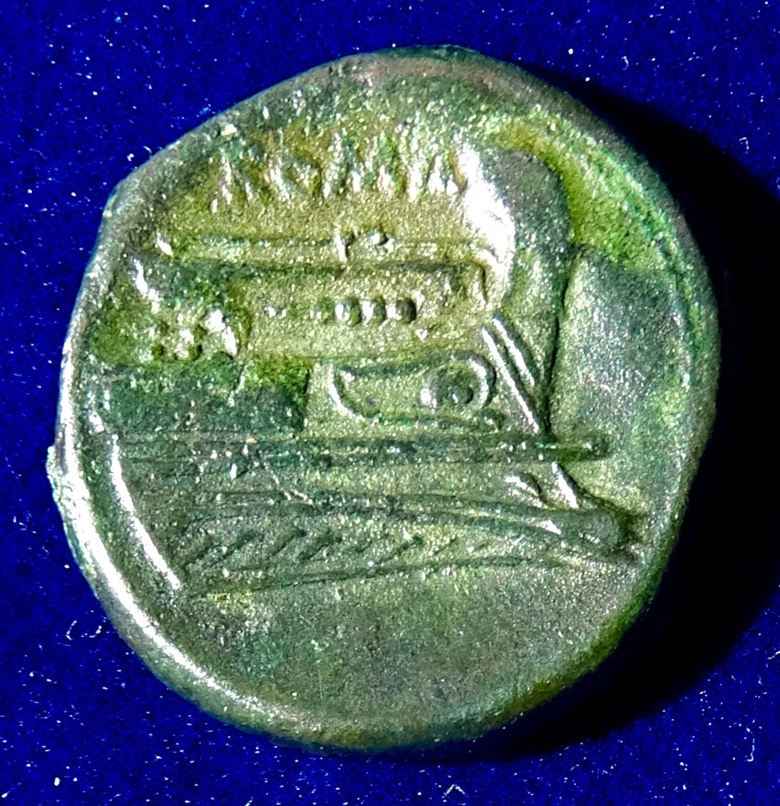 Roman Republic Semuncia 217 - 215 B.C. Anonymous. Mercury/Prow VF+ Bronze Coin. D. = 21 mm. 6.42 g. Rome mint. Head of Mercury r. / "ROMA" l. above a prow of a galley r. Crawford 38/7. A galley is a ship that is propelled mainly by rowing. Condition : VERY FINE+, dark green patina.